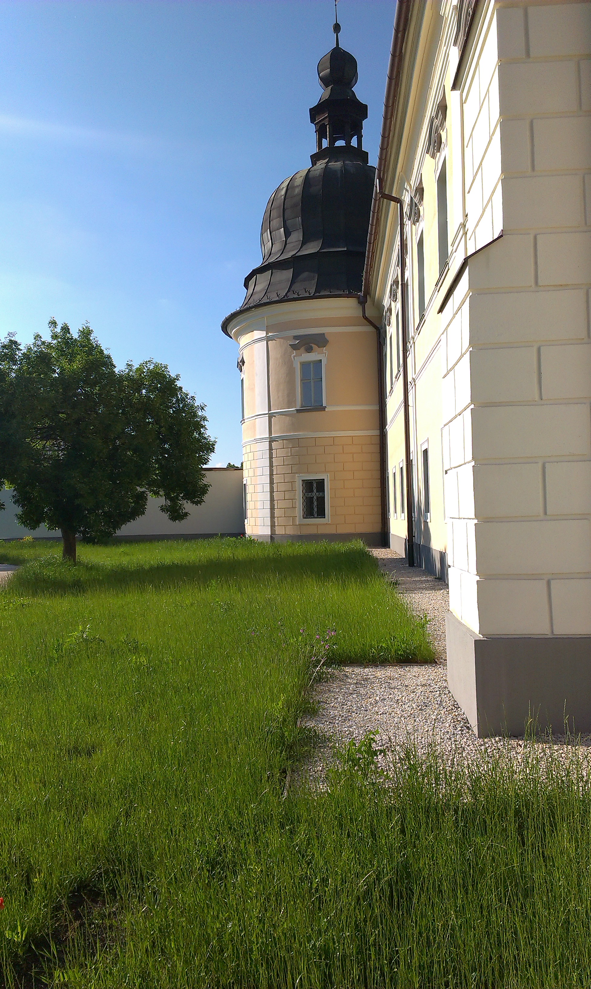 A bastion of the L'Huillier-Coburg Castle in Edelény, Hungary.